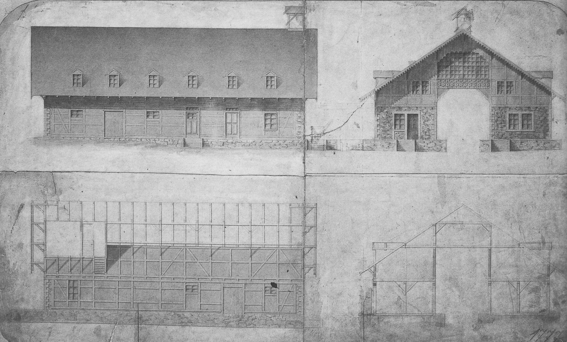 plans of goods shed of Niederau railway station in Saxony